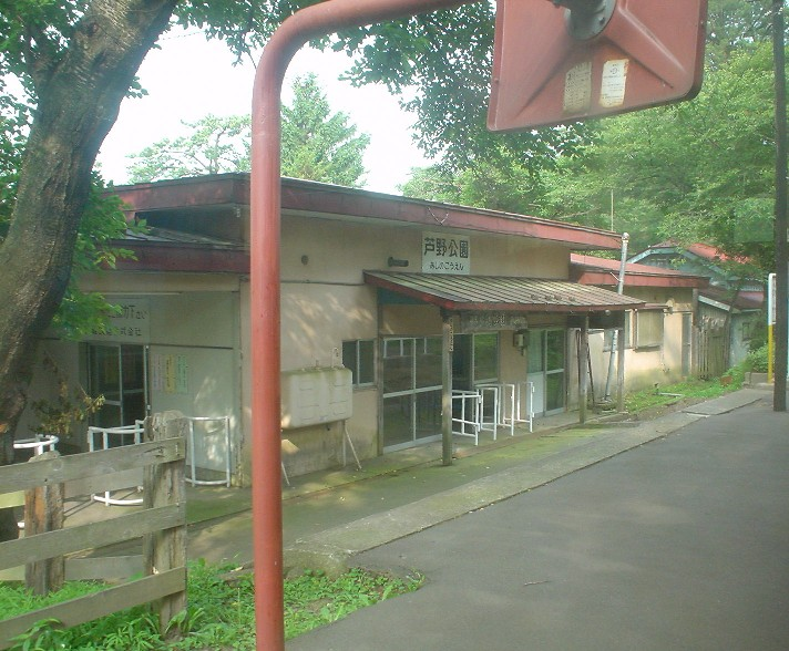 Tsugaru Railway Ashino-Kouen Station, Aomori, Japan